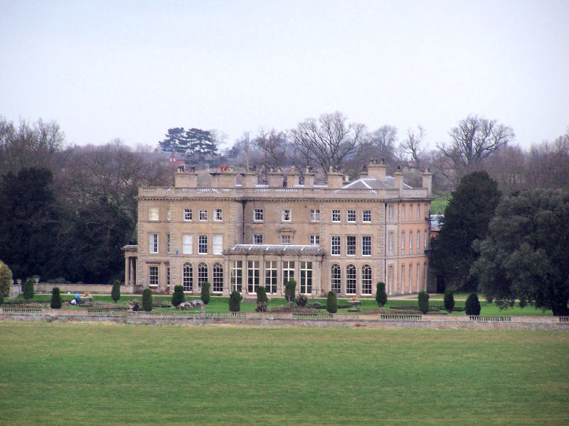 Prestwold Hall taken by kev747